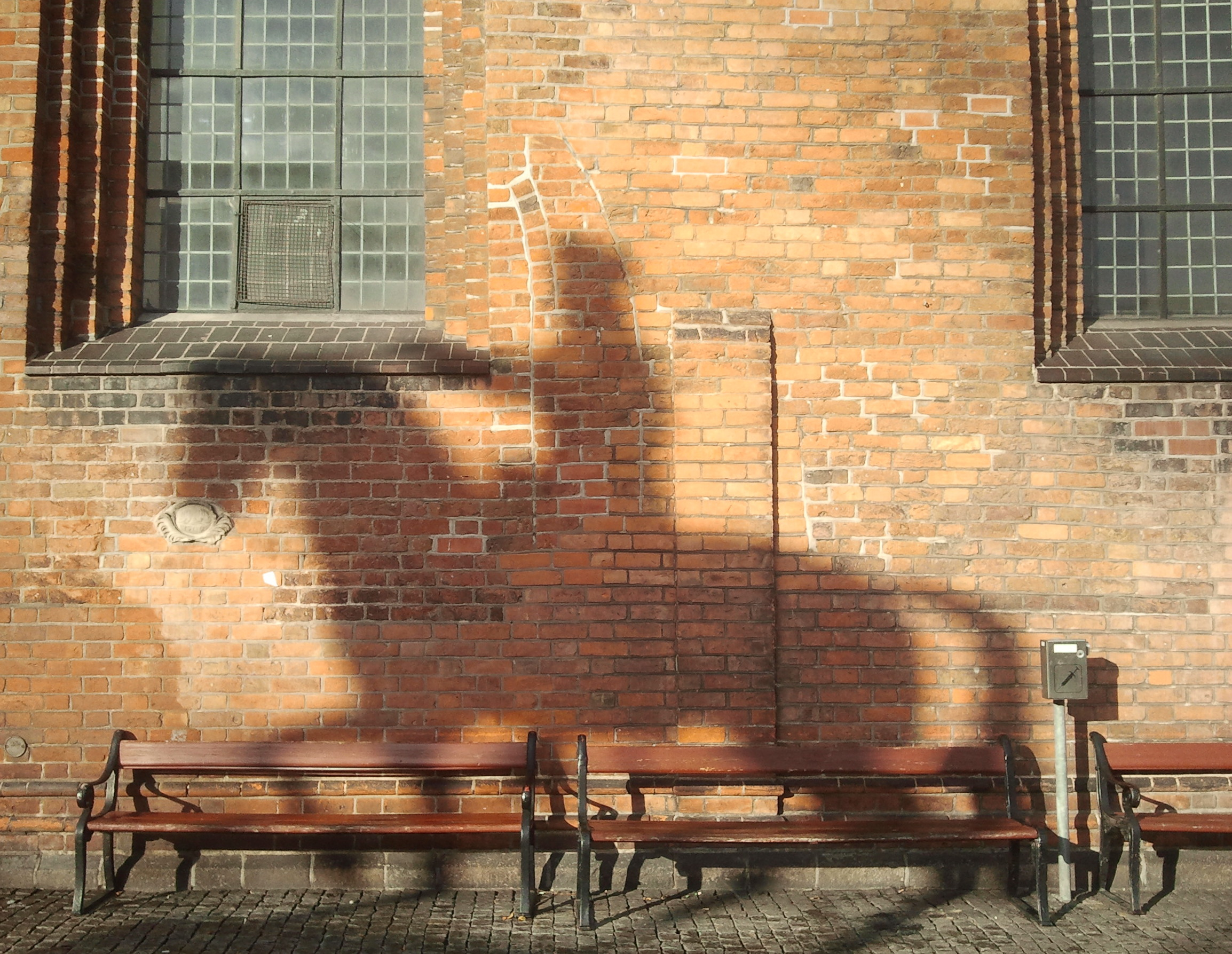 Red brick wall of Aarhus Cathedral with shadow of Christian X statue